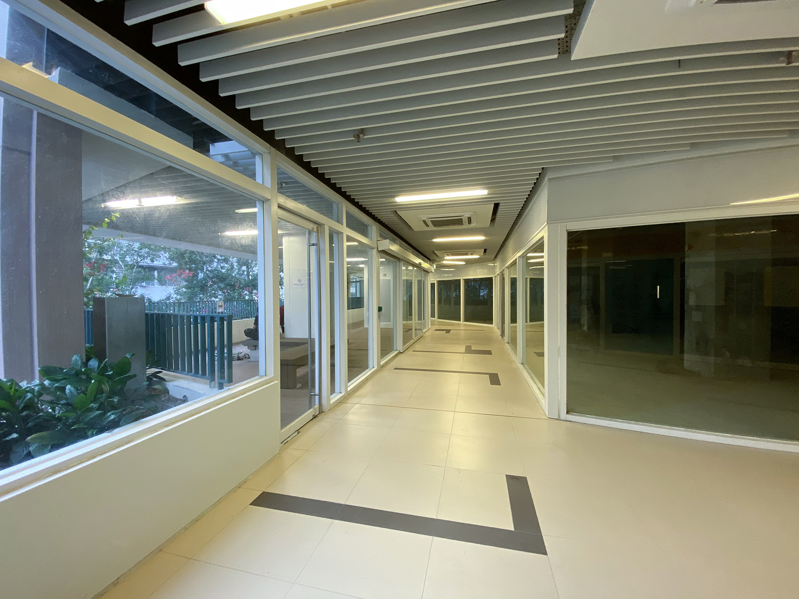 So Uk Shopping Centre Level 1